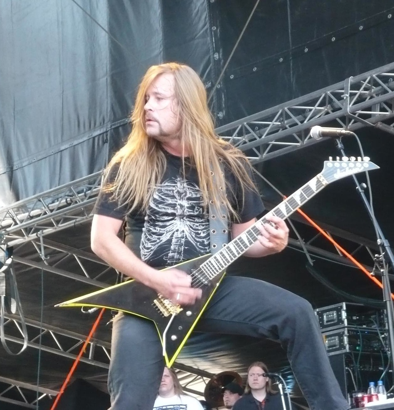 Roope Latvala playing with Stone during Sauna Open Air -metal festival in Tampere.